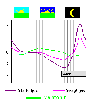 Swedish version of PRC-Light+Mel.png